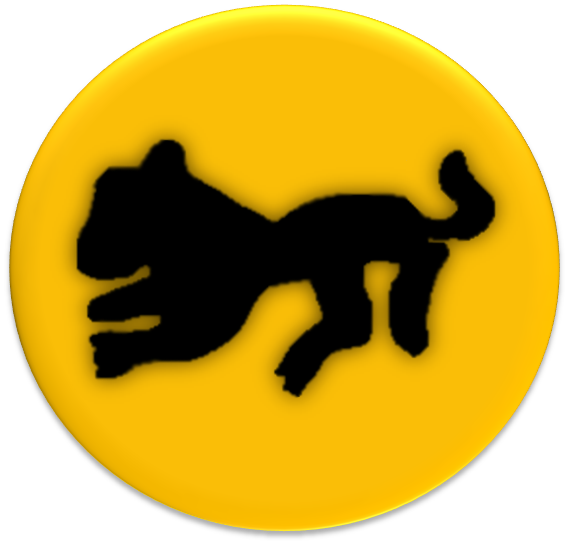 Baibars-Icon A leader from the Mamluk Dynasty